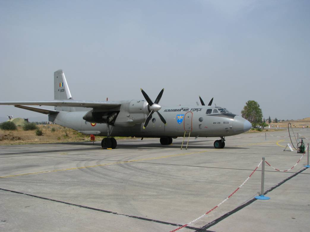 An Antonov An-26 of the Romanian Air Force at the 2008 HAF air show